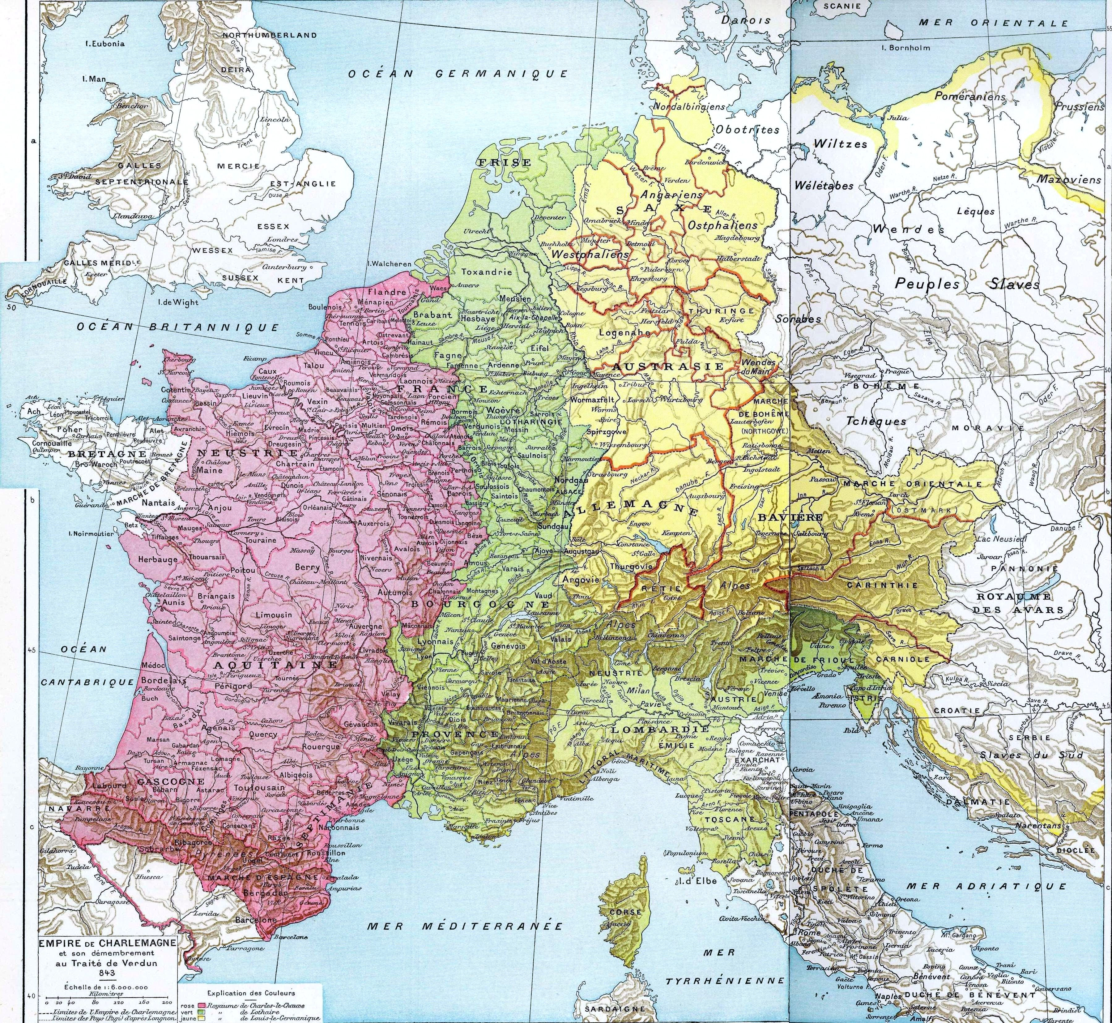 The parting of Carolingian Empire by the Treaty of Verdun in 843. Pink area indicates West Francia.Green area indicates Middle Francia.Yellow area indicates East Francia.